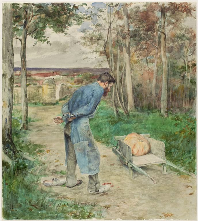 Jules Sebastien-Lepage's illustration of La Fontaine's fable of "The acorn and the pumpkin", 1881. Art Institute of Chicago, watercolor on ivory wove card, 400 x 359 mm